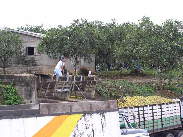 Gathering of Oranges Cayo, Belize Central America.